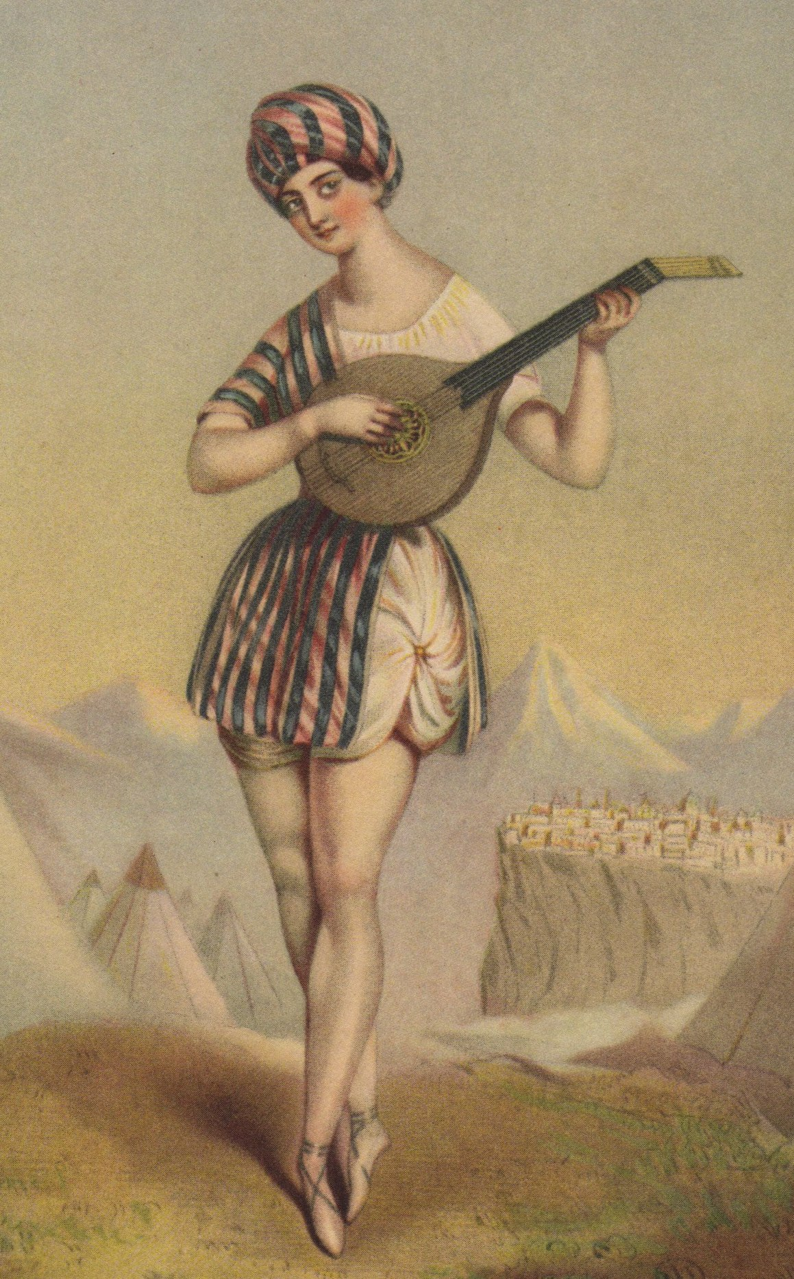 Céline Céleste as the Arab Boy in "Victoire!", drawing by William Drummond